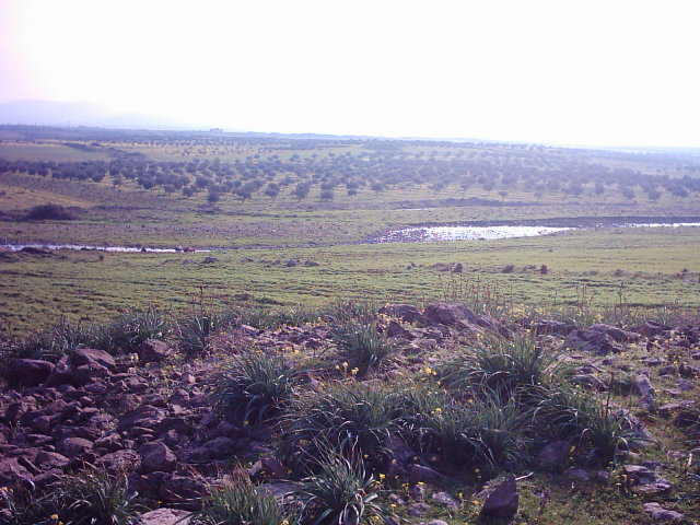 Olive orchards (in distance) under cultivation in Alhulah area, Homs Governorate, western Syria.